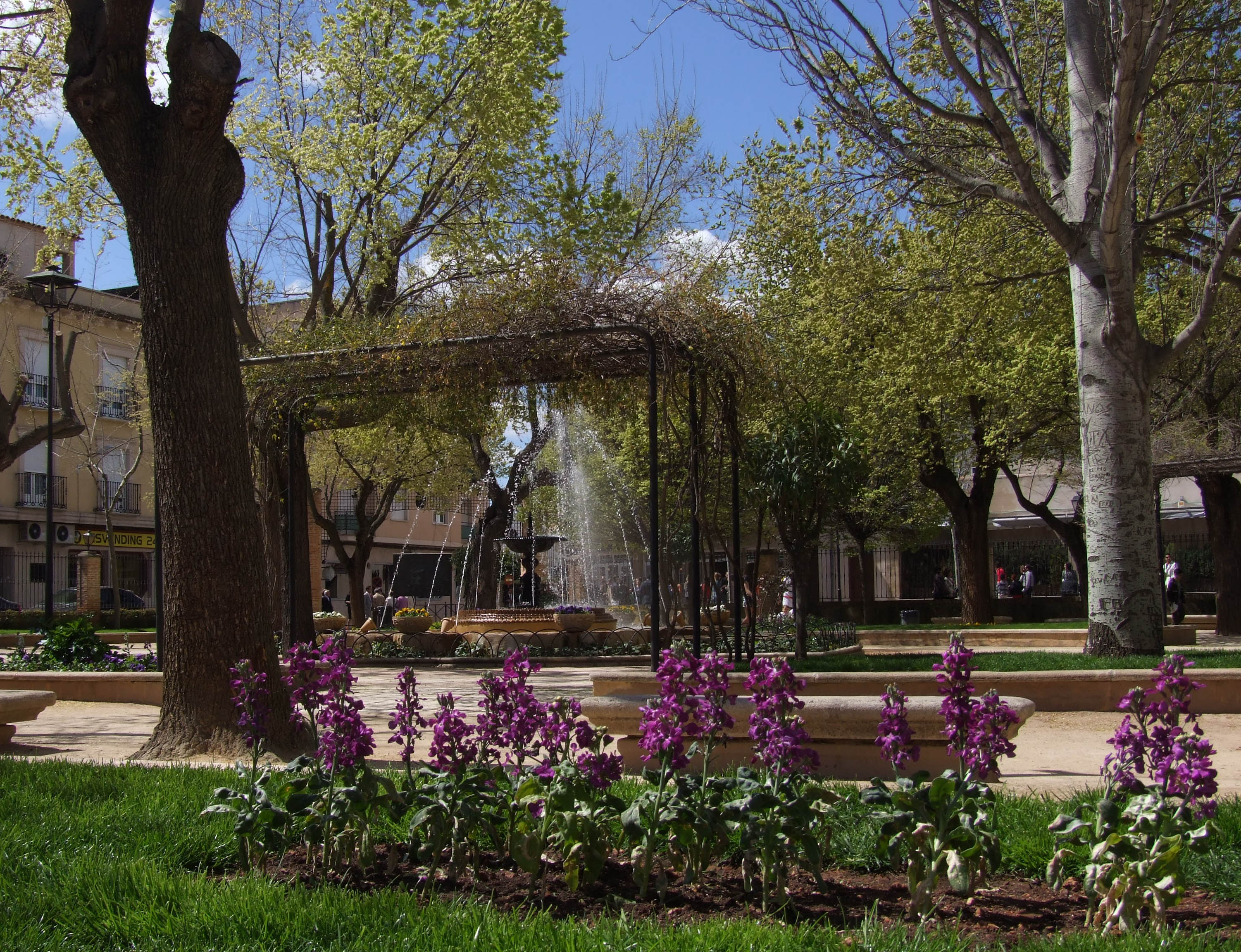 Bolaños´s park